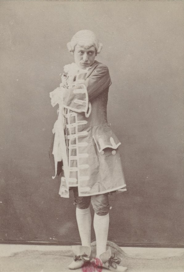 Jean-Paul (real name Benjamin-Paul-Émile Kauffmann, 1830-1888), French actor in unkown role